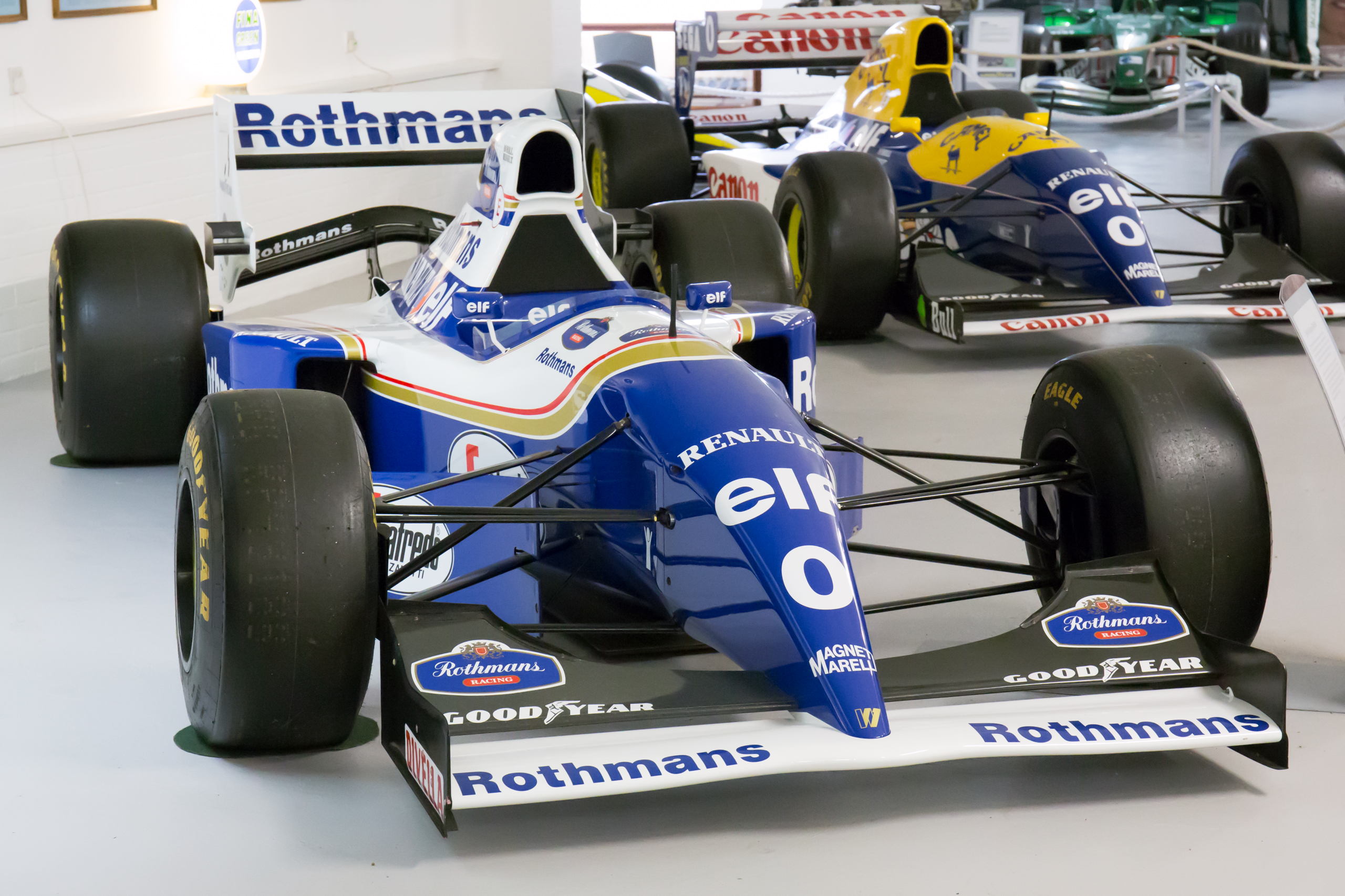 1994 Williams FW16B (#0 Damon Hill)